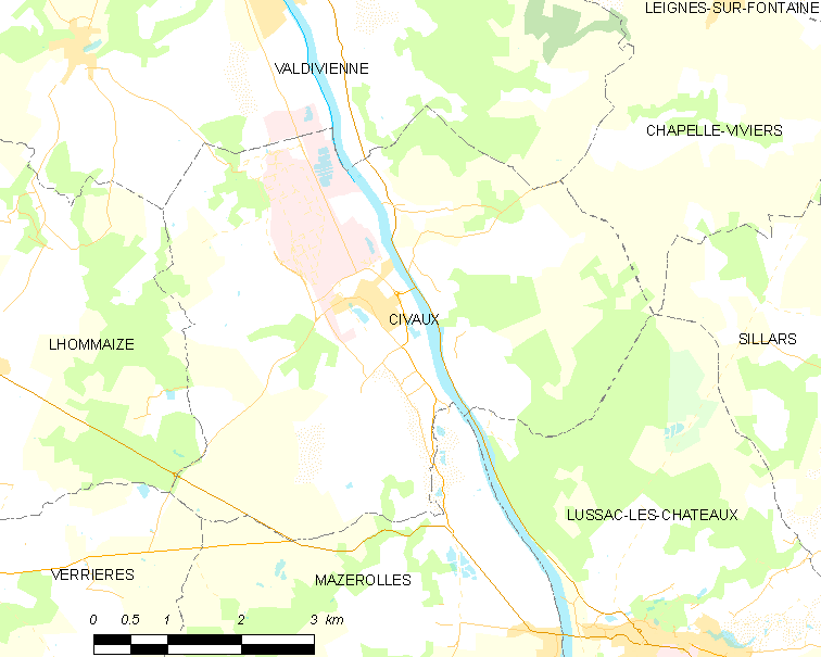 Map of French municipality Civaux